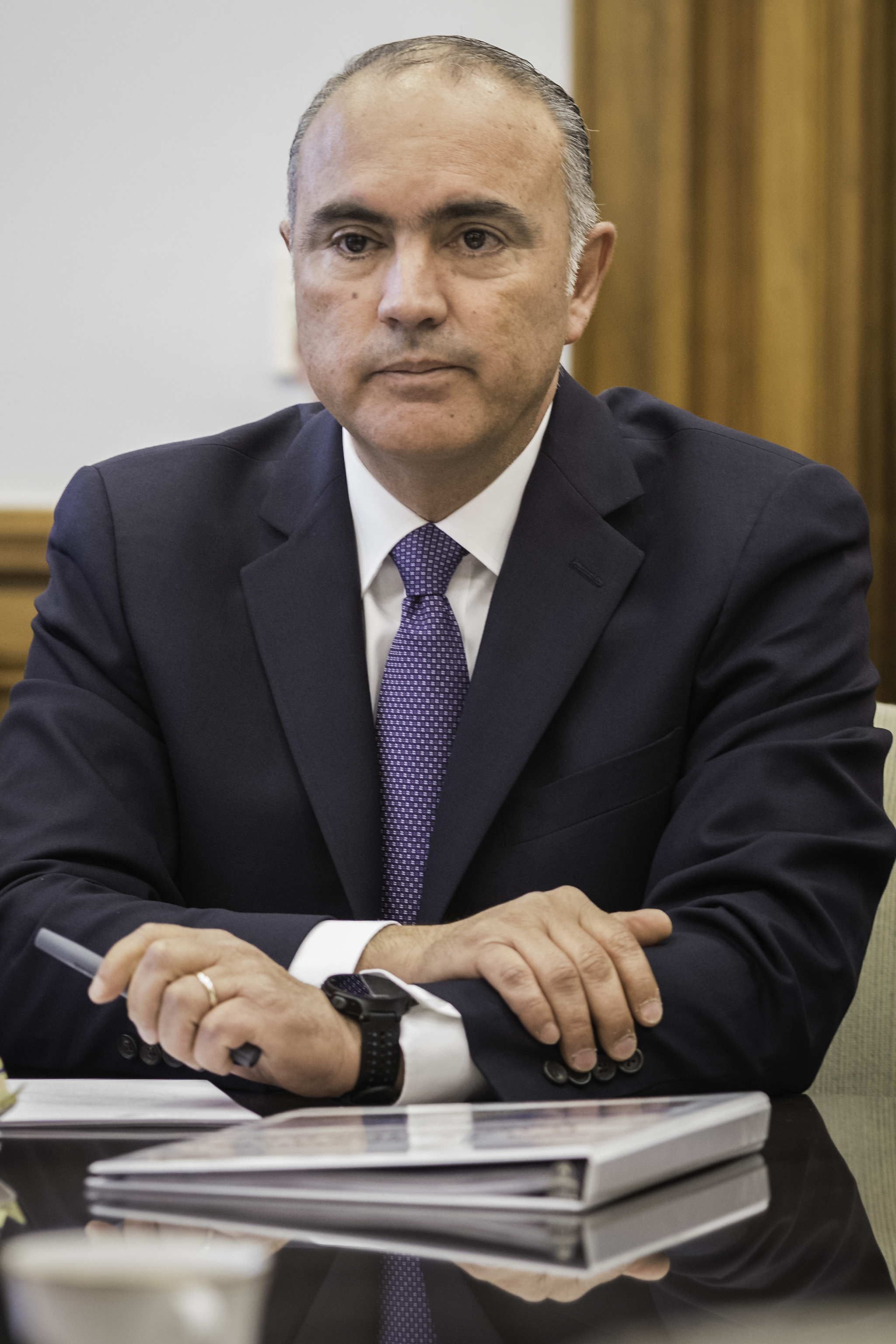 Jose Calzada, Secretary of Agriculture, Livestock, Rural Development, Fishery and Food, Mexico met with Agriculture Secretary Tom Vilsack to discuss agricultural trade and production at the United States Department of Agriculture (USDA) in Washington, D.C.,Tue. Jul. 12, 2016. USDA photo by Bob Nichols.